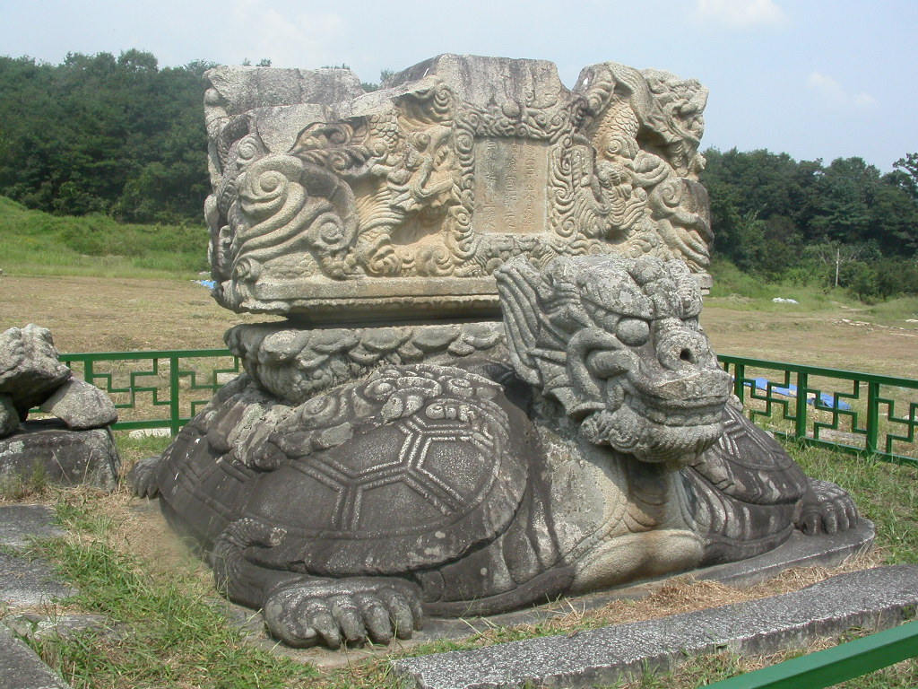 Turtle shaped pedestal and dragon shaped capstone of stele of Godalsa Wonjong daesa Hyejintap